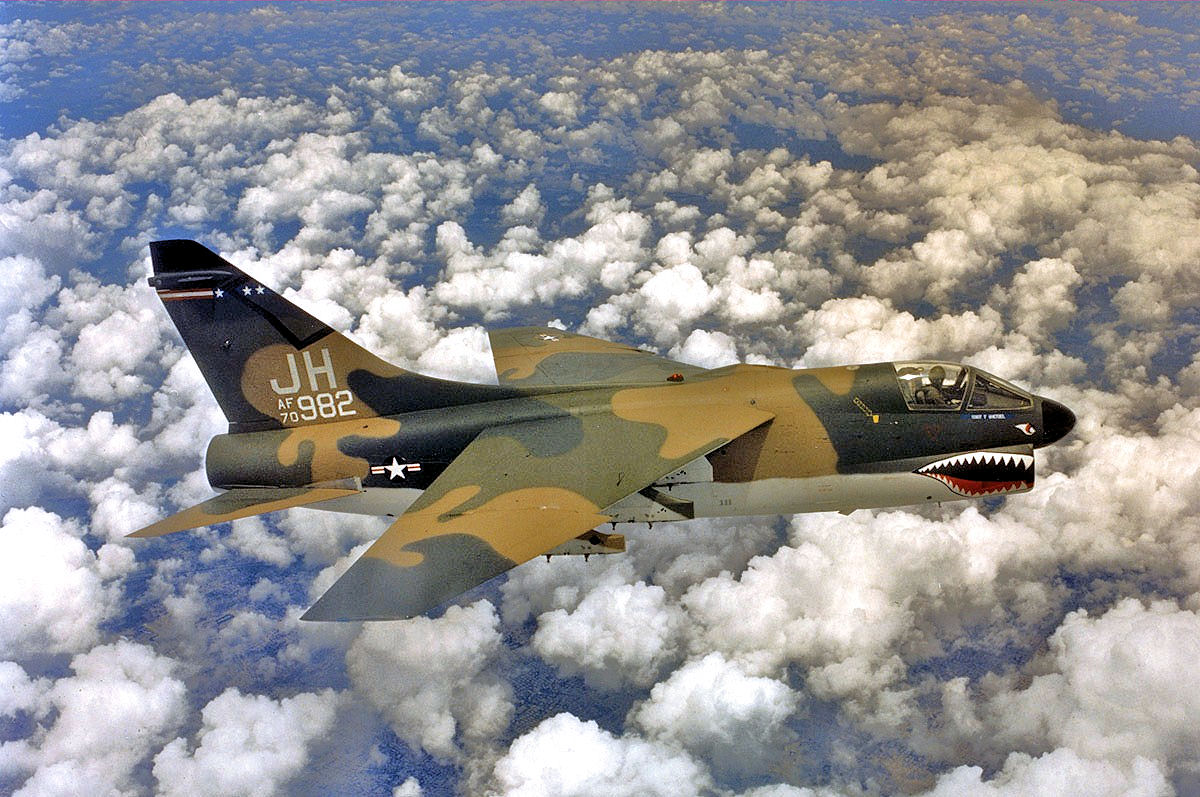 3d Tactical Fighter Squadron A-7D Corsair II 70-982 in flight. 1972: Delivered to 354th Tactical Fighter Wing/353d TFS, Myrtle Beach AFB, SC (c/n D-128) Deployed to Korat RTAFB, Thailand, October 1972; Transferred to 388th Tactical Fighter Wing/3d TFS, March 1973 Transferred to 23d Tactical Fighter Wing/76th TFS, England AFB, LA 1975 Transferred to 57th Fighter Weapons Wing/66th FWS, Nellis AFB, LA 1981 Transferred to 4450th Tactical Group/4451st TS, Nellis AFB, NV, 1986 Transferred to 149th Tactical Fighter Squadron, VA Air National Guard, 1989 Transferred to 198th Tactical Fighter Squadron, PR Air National Guard, 1991 Struck off charge at Volk Field ANGB, WI after cracks were found in airframe while unit was tere for training. Currently preserved at Volk Field ANGB, WI.